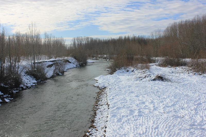 Bernesga River its way through Carbajal de la Legua.